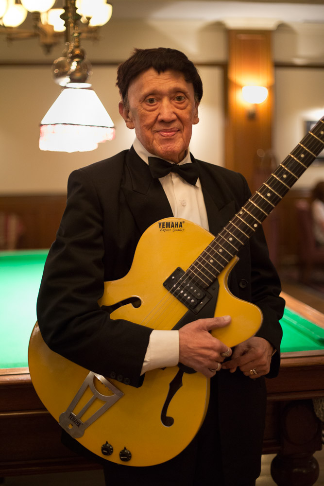 Carlton Kitto at the Oberoi Grand Hotel, Kolkata, 8 May 2012 (photo by Alan Thomas)